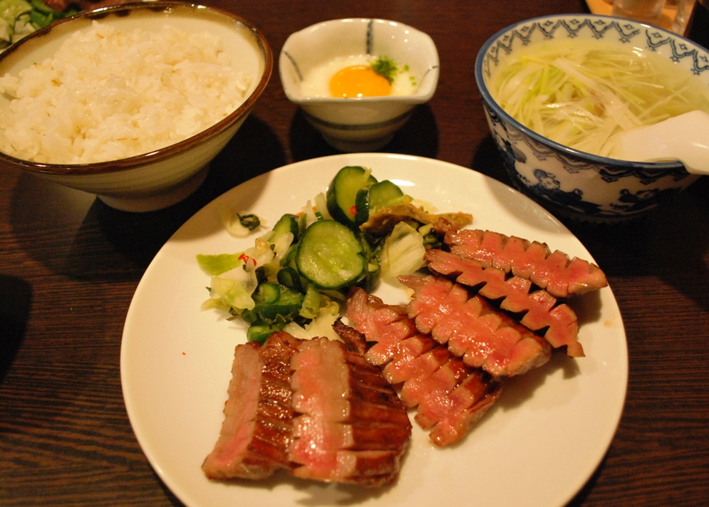 Gyutan teishoku at Rikyu